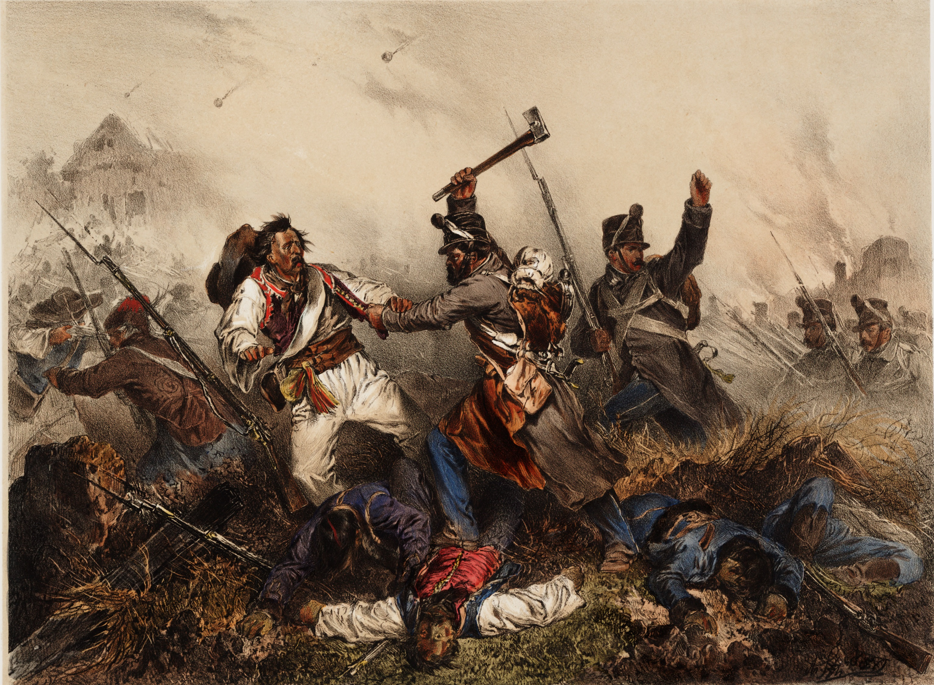 Scene from the Battle of Bodrogkeresztúr 23 January 1849, in which György Klapka defeated the Austrian army commanded by Lieutenant-General Franz Schlik